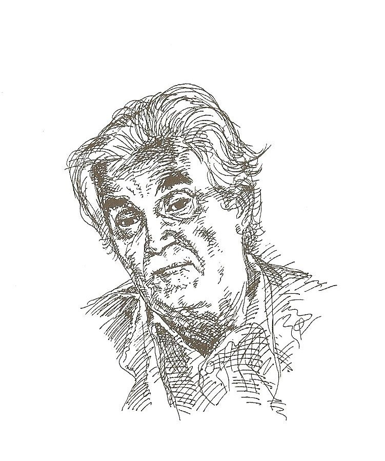 Nikola Milošević. Drawing by Zoran Tucić used in the book of interviews, Razgovori (Conversations, 1999), by Dejan Stojanović.